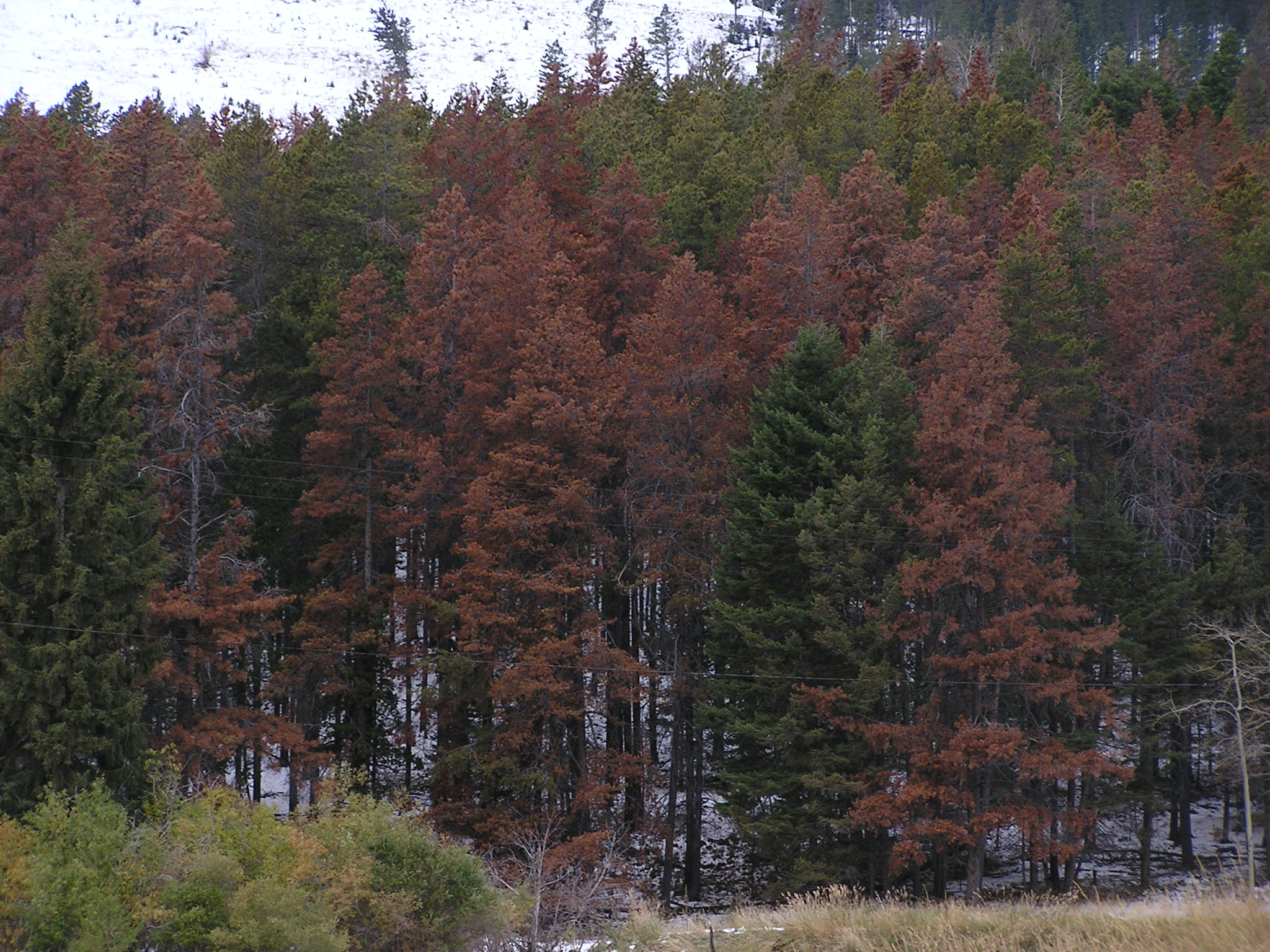 Helena National Forest 2009